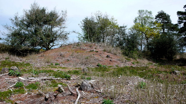 Thomas Hardy Locations, Return of the Native This is one of the so called Rainbarrows above Duddle Heath, one of the heaths close to Hardy's birthplace that became Egdon Heath in the novel. The Rainbarrow has a superb view over the valley of the Frome and this is where Eustacia Vye watched and looked for Wildeve